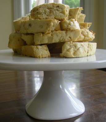 Pinoli (pine nuts) cookies